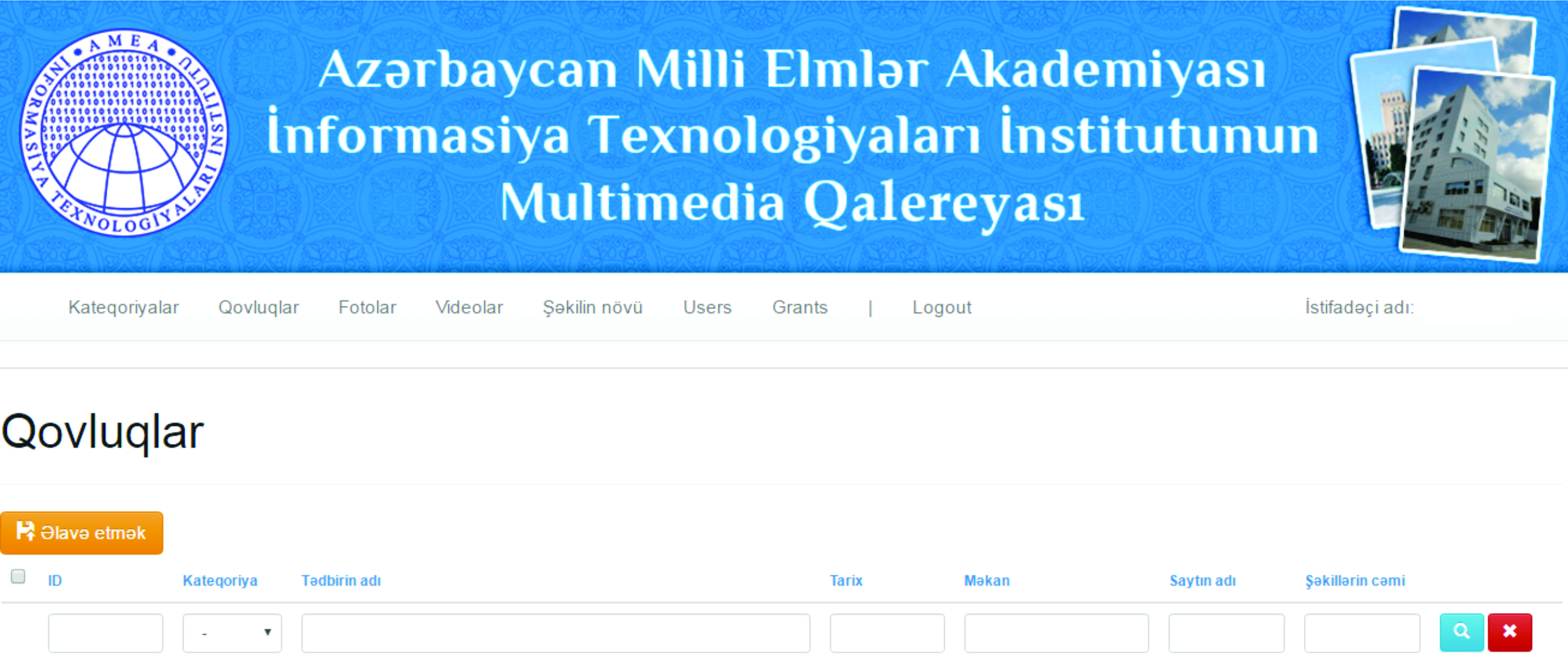 multimedia gallery foto